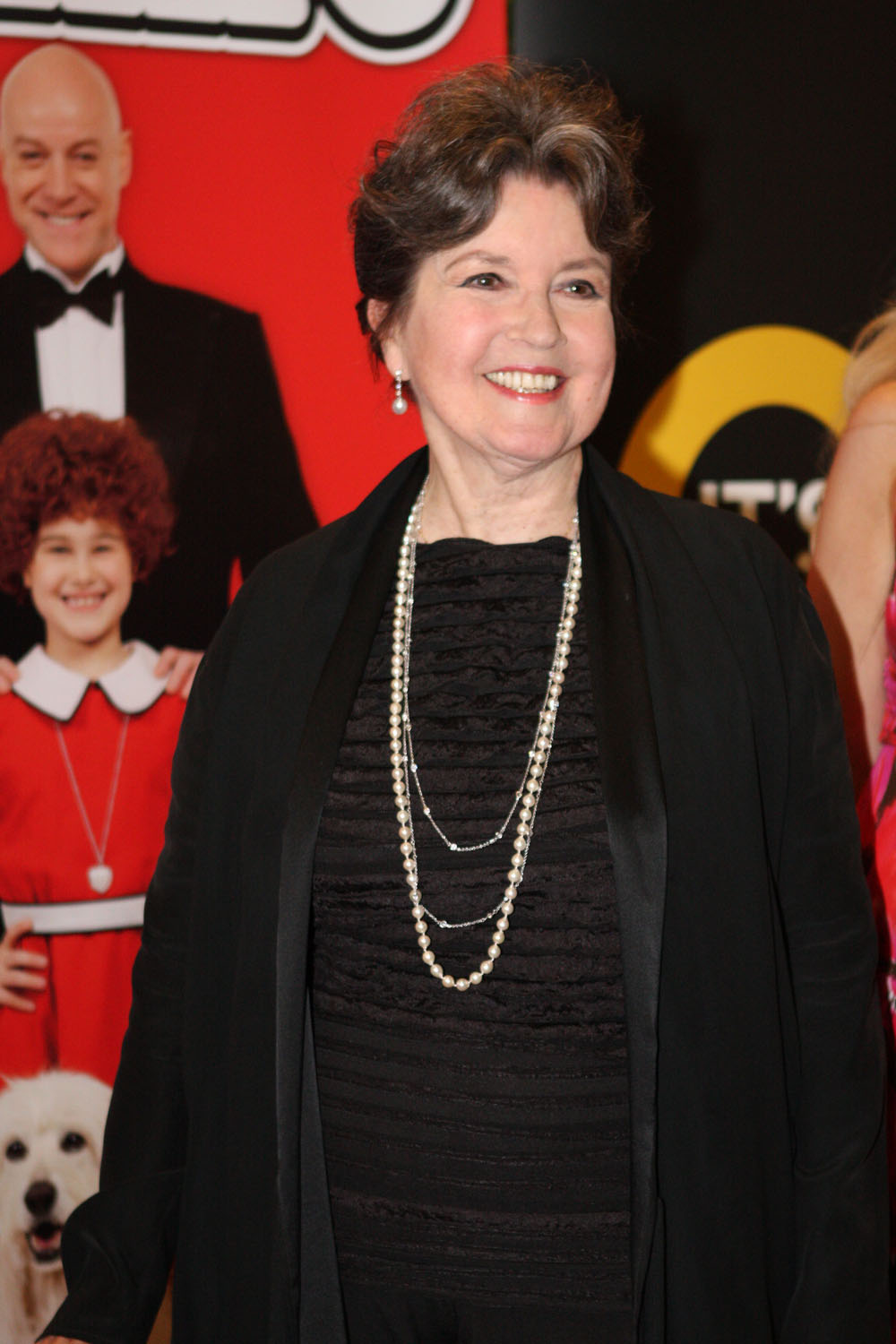 Lorraine Bayly in 2012